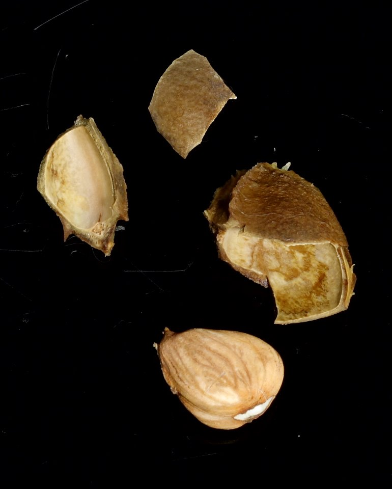 The broken seed and kernal of an apricot of the Angelcot cultivar (hybridized from Moroccan and Iranian apricots), in a variety called "Saintly", from FA Maggiore & Sons, Brentwood, California. Purchased at Trader Joe's, West Hartford, Connecticut, July 3, 2008.